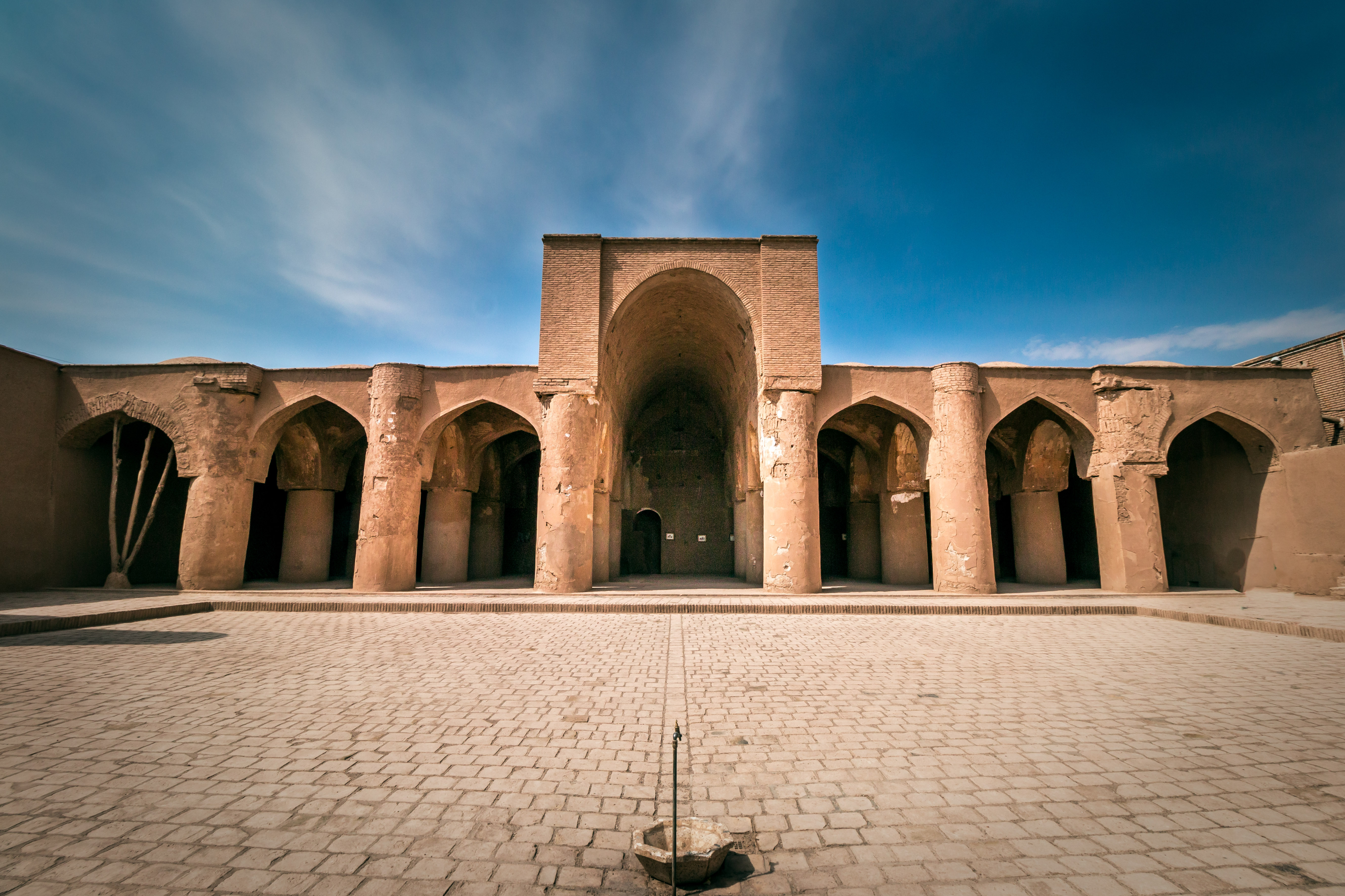 The Tarikhaneh Temple, also called the Tarikhaneh Mosque, is a Sassanid-era monument located on the southern limit of the present day city of Damghan, Iran. This structure was initially used as a Zoroastrian Fire Temple during the Sassanid period, however, after the fall of the Sassanid Empire it was rebuilt and converted into a mosque in the 8th century. The monument is, thus, known as the oldest mosque in Iran. Tari is the Turkic term for God, and Khaneh is a Persian word meaning house. Therefore, the compound word Tarikhaneh, translates into "the house of God".[wikipedia]